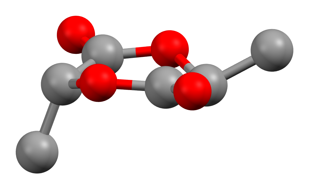 Crystal structure of meso-lactide. Hydrogens were not reported. (2000). "Molecular Design of Single-Site Metal Alkoxide Catalyst Precursors for Ring-Opening Polymerization Reactions Leading to Polyoxygenates. 1. Polylactide Formation by Achiral and Chiral Magnesium and Zinc Alkoxides, (η3-L)MOR, Where L = Trispyrazolyl- and Trisindazolylborate Ligands". J. Am. Chem. Soc. 122 (48): 11845. This image of a simple structural formula is ineligible for copyright and therefore in the public domain, because it consists entirely of information that is common property and contains no original authorship.